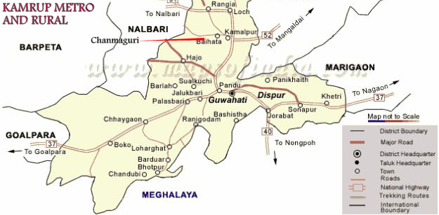 kamrup metro rural